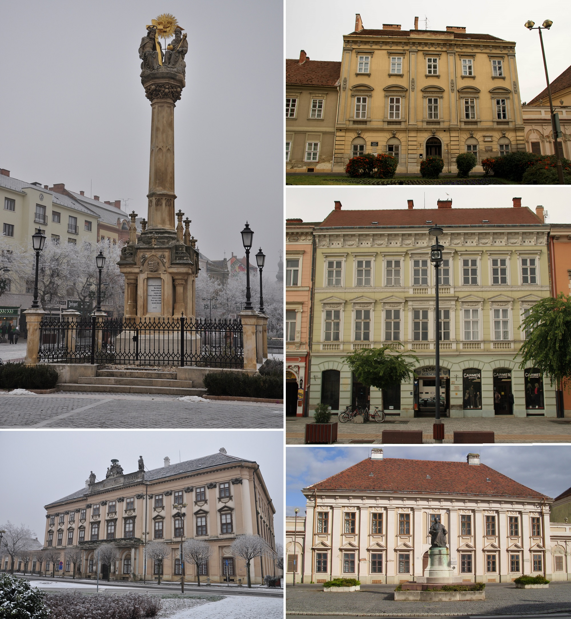 Montage of Szombathely